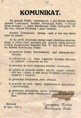 Proclamation of Polrewkom (puppet Soviet government in occupied eastern territories of Poland during Soviet-Polish War, 30 of July 1920